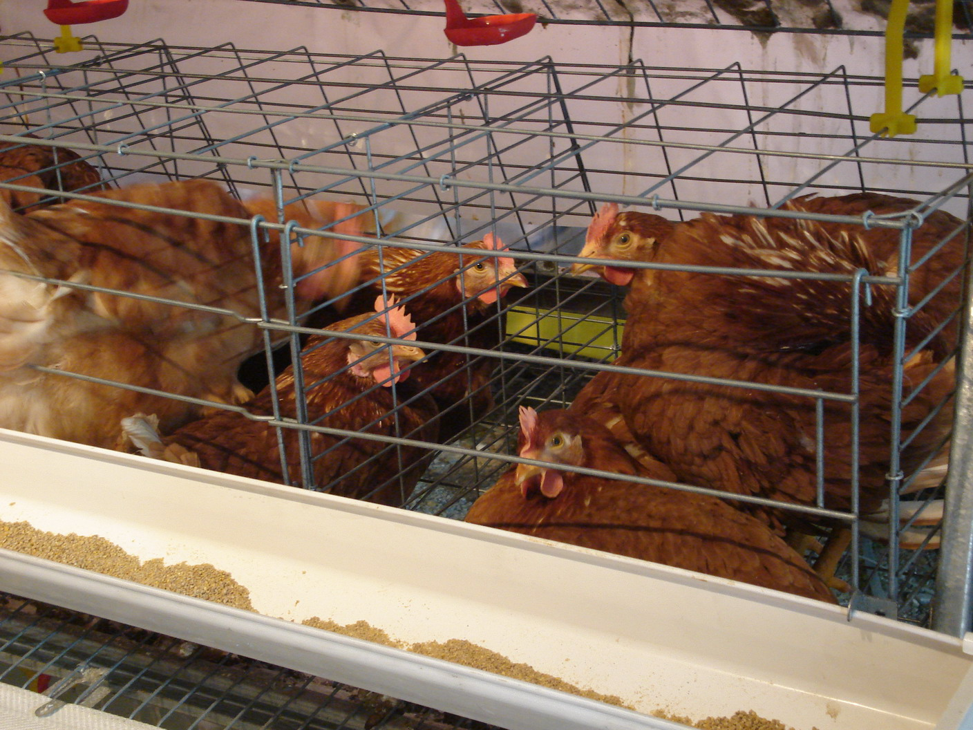 Hens (Charoen Pokphand Group (CP)) -- Chiangmai, Thailand